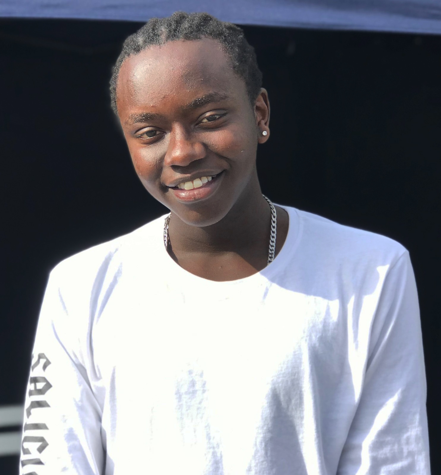 Swedish singer and Idol-winner Tusse Chiza